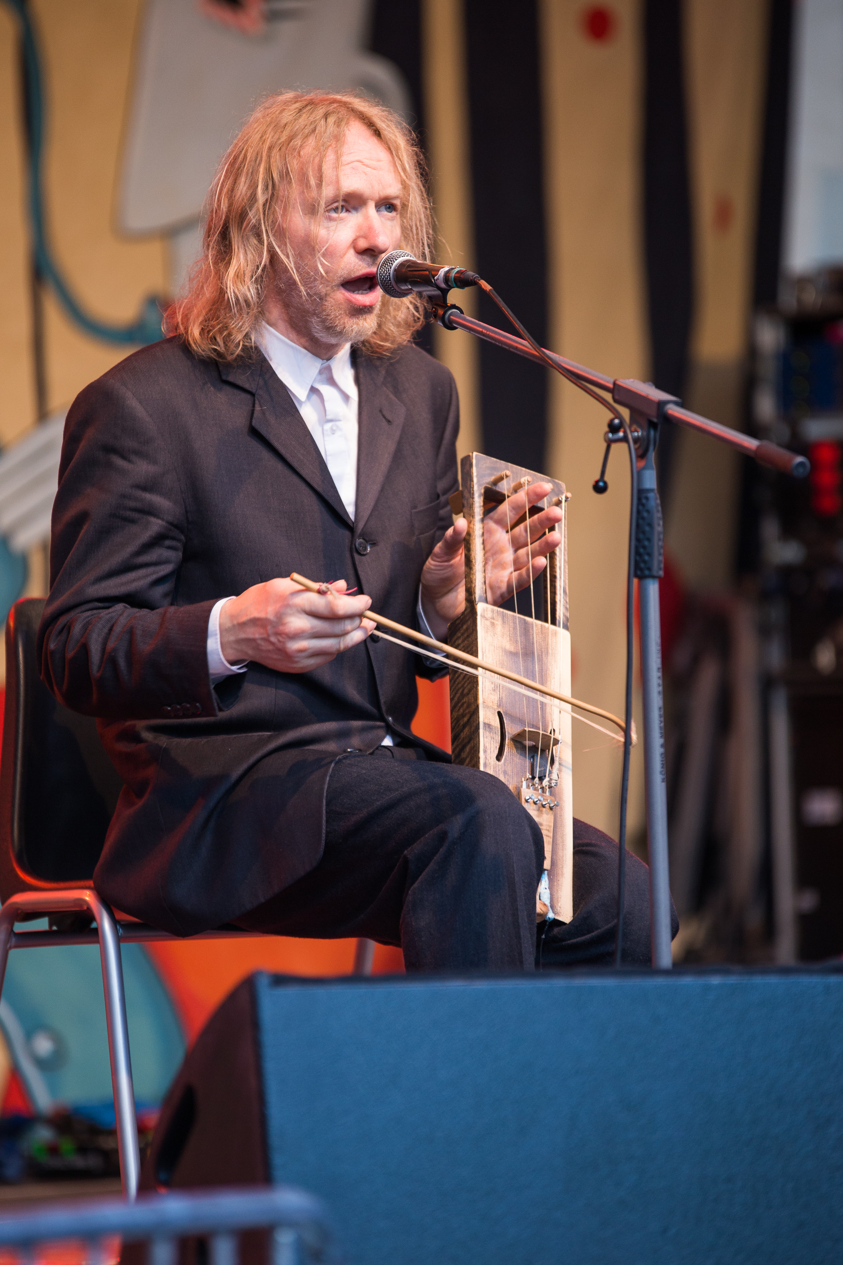 Puuluup playing at the Rudolstadt-Festival 2018.